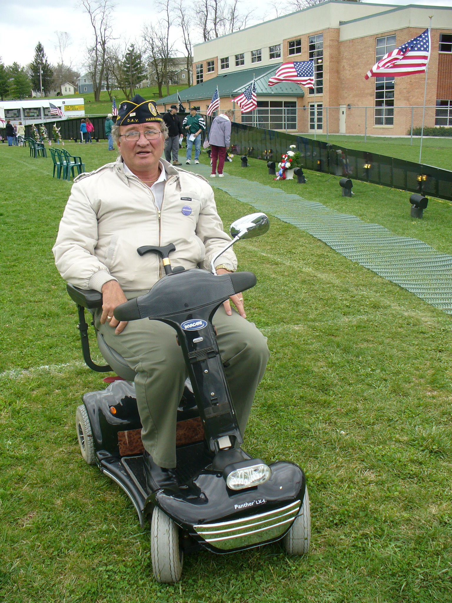 Vietnam veteran volunteer at Vietnam Veterans Memorial replica "The Wall That Heals" on tour at Ralph Sampson Park/Simms Education Center in Harrisonburg, Virginia.